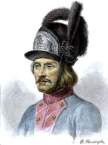 Polish soldier of 3rd Lithuanian Infantry Regiment in 1792